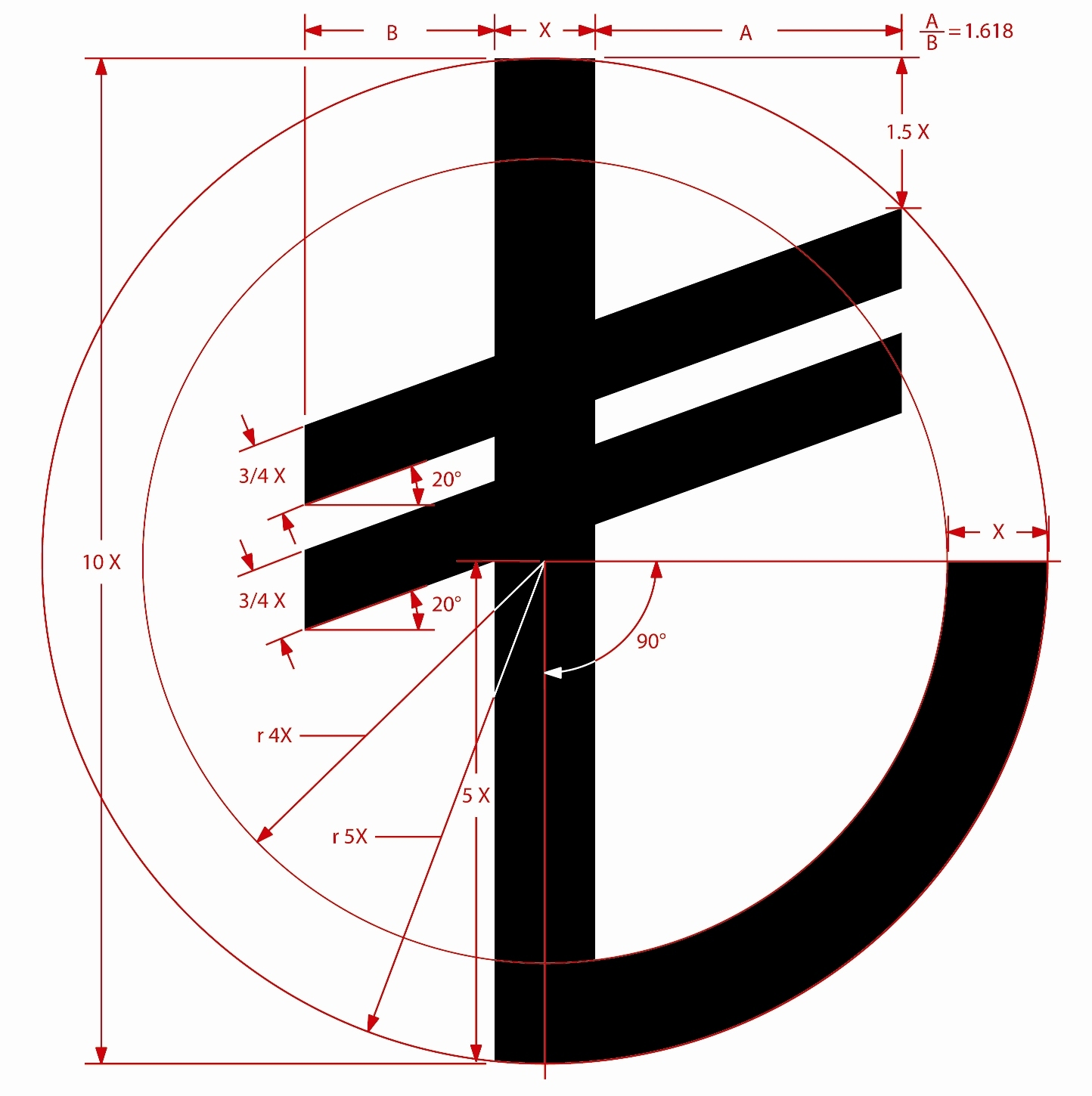 Format of Turkish Lira Symbol